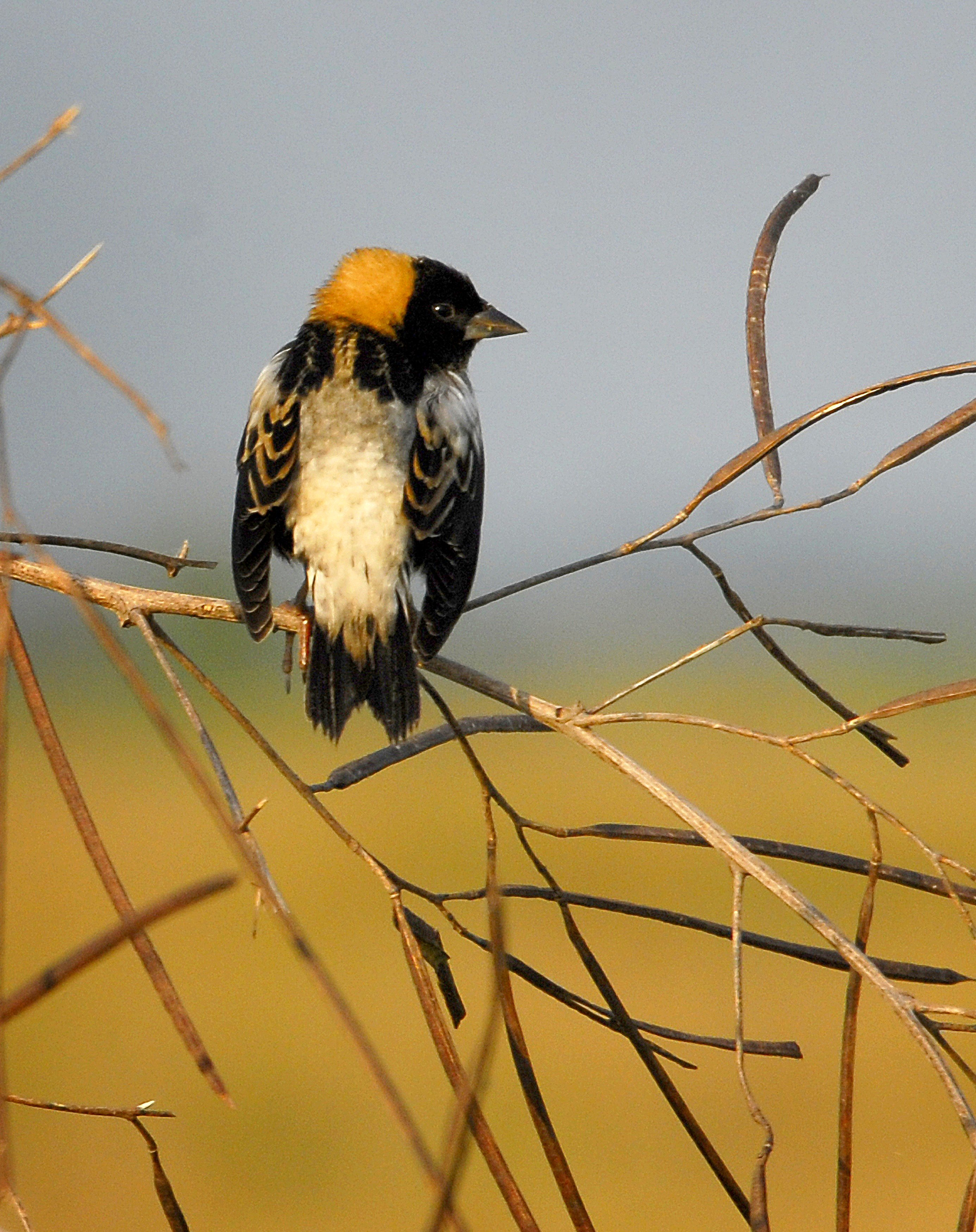 Male Bobolink in Full Breeding Plummage at Lake Woodruff Extensive Bobolink information can be found here